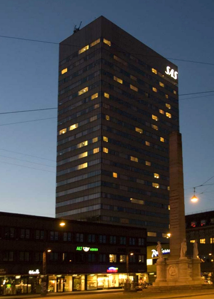 Modernist Arne Jacobsen's 1960 Mies-inspired SAS hotel, Downtown Copenhagen